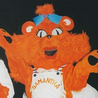 Samantha Bearkat